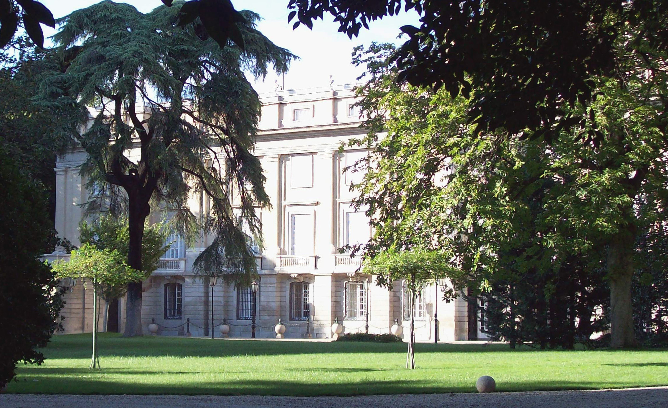 South-west façade of Liria Palace in Madrid (Spain), at 18-20 Calle de la Princesa (street) in Centro district. Projected by Ventura Rodríguez and built between 1762 and 1783.